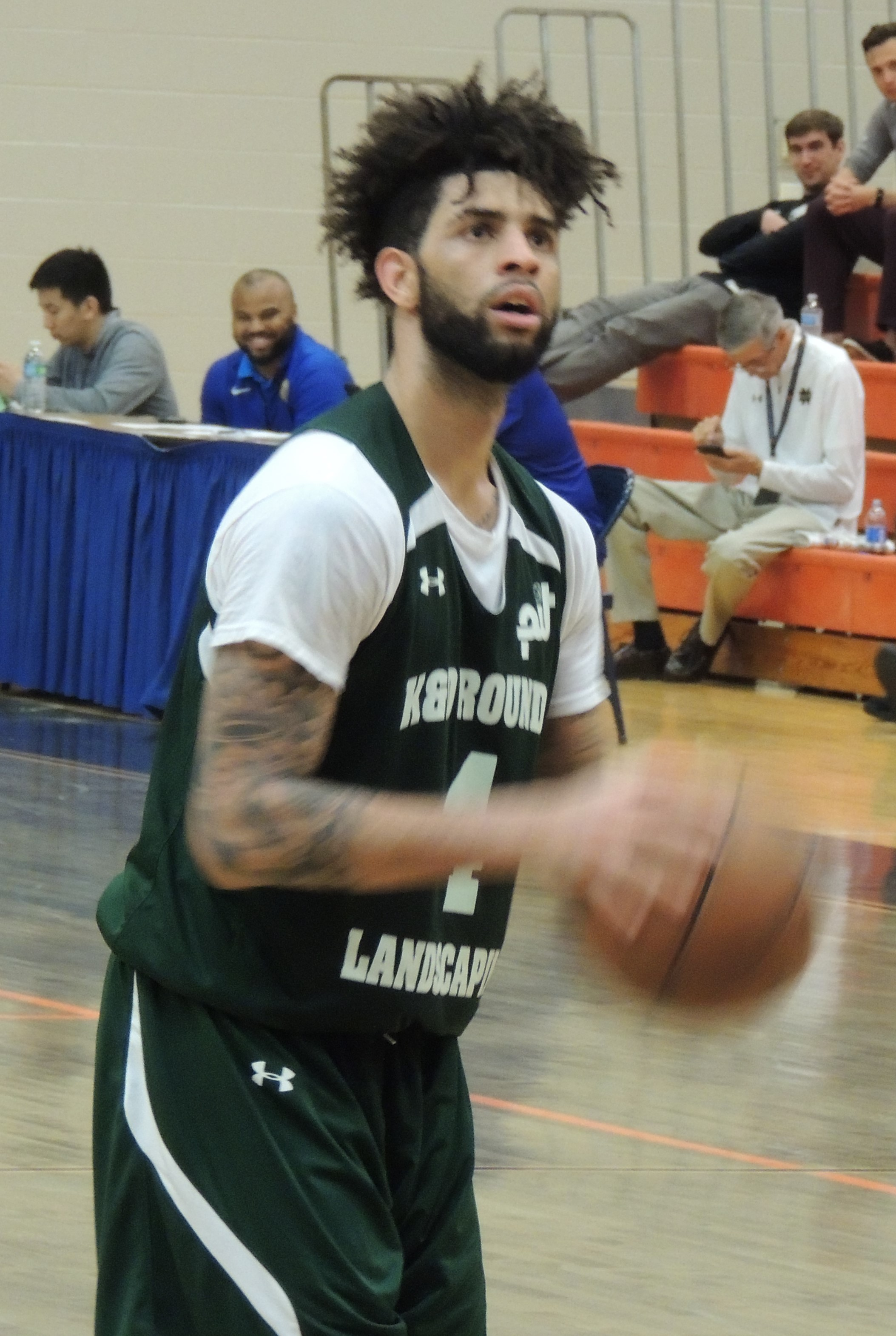 American basketball player Josh Perkins of Gonzaga University at the 2019 Portsmouth Invitational Tournament.